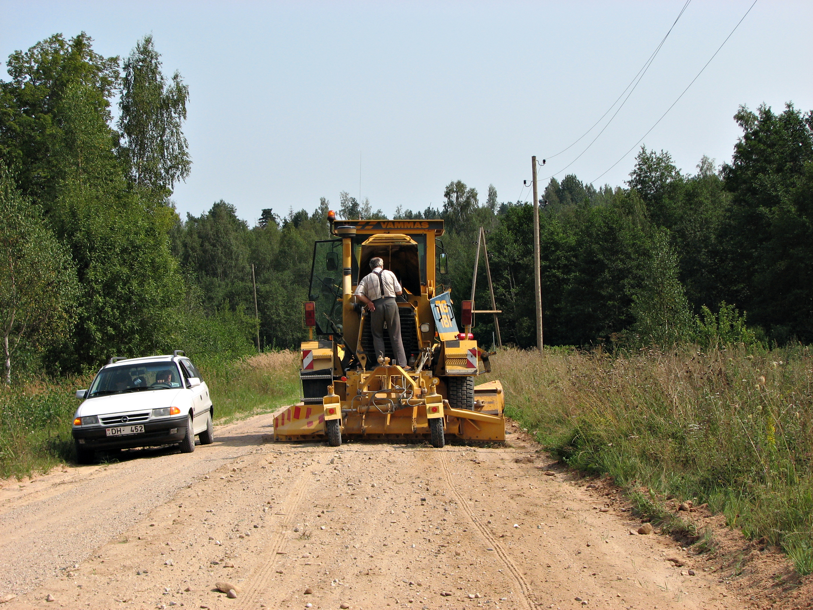 A finnish-built Vammas RG-181 grader in Dagda municipality.